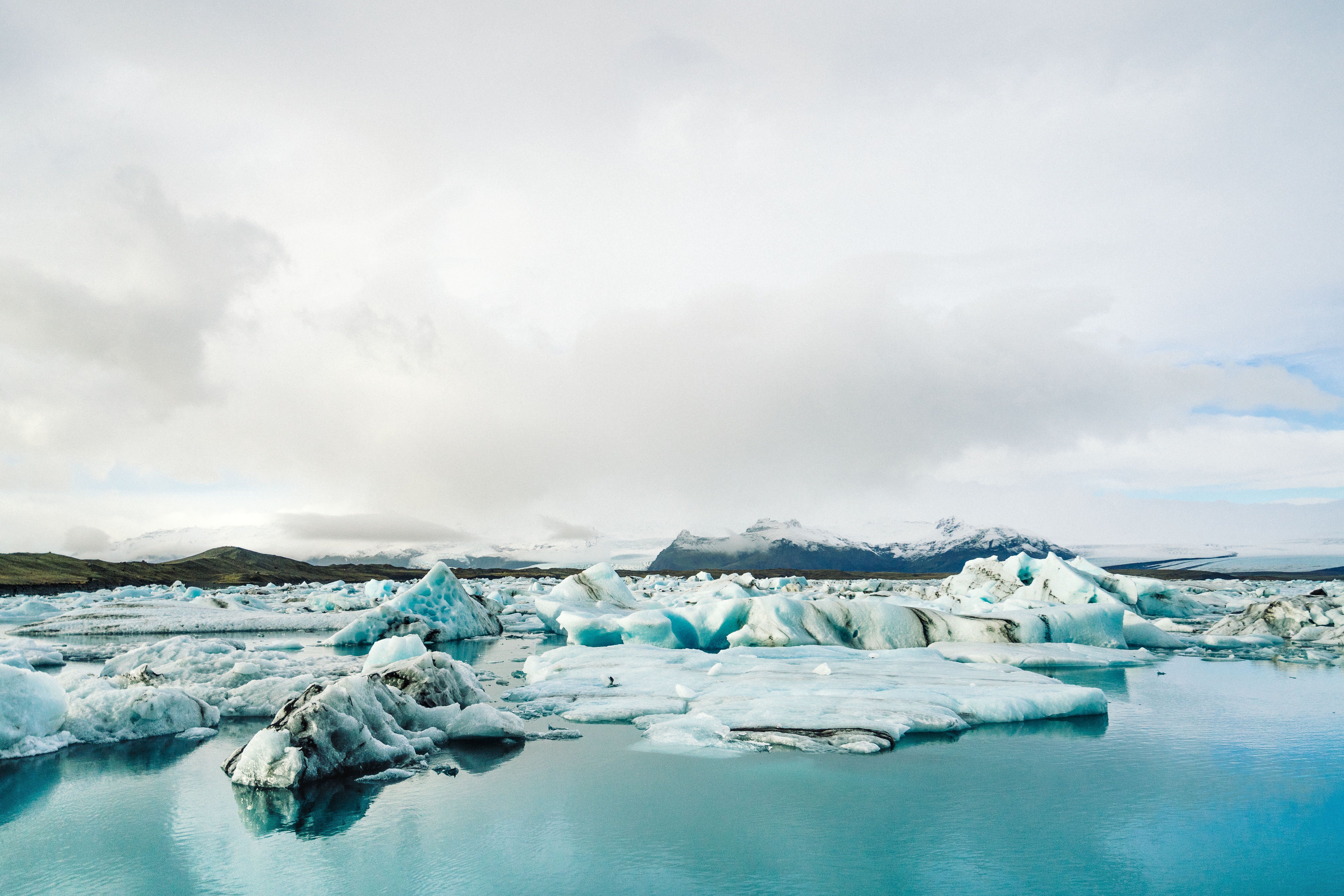 Vatnajökull National Park, Iceland